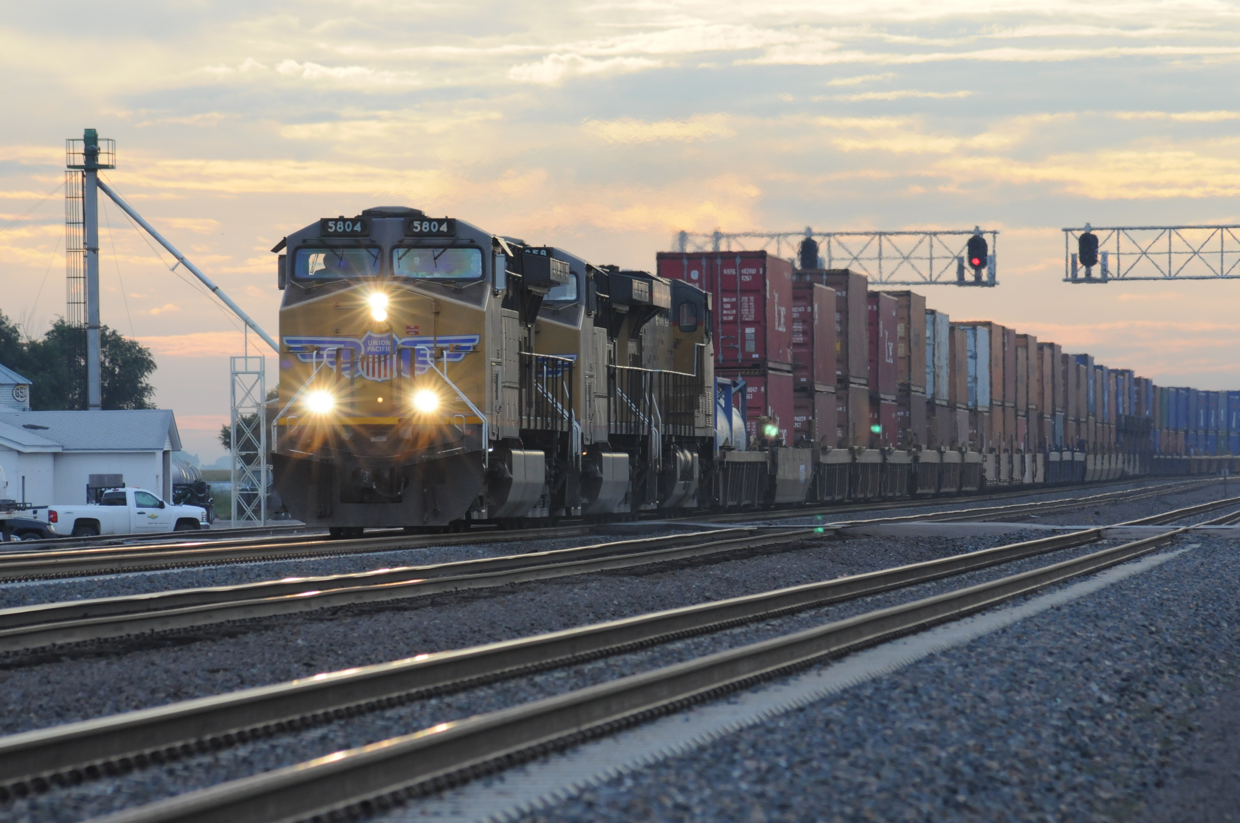 Union Pacific Railroad's Overland Route in Hershey, Nebraska